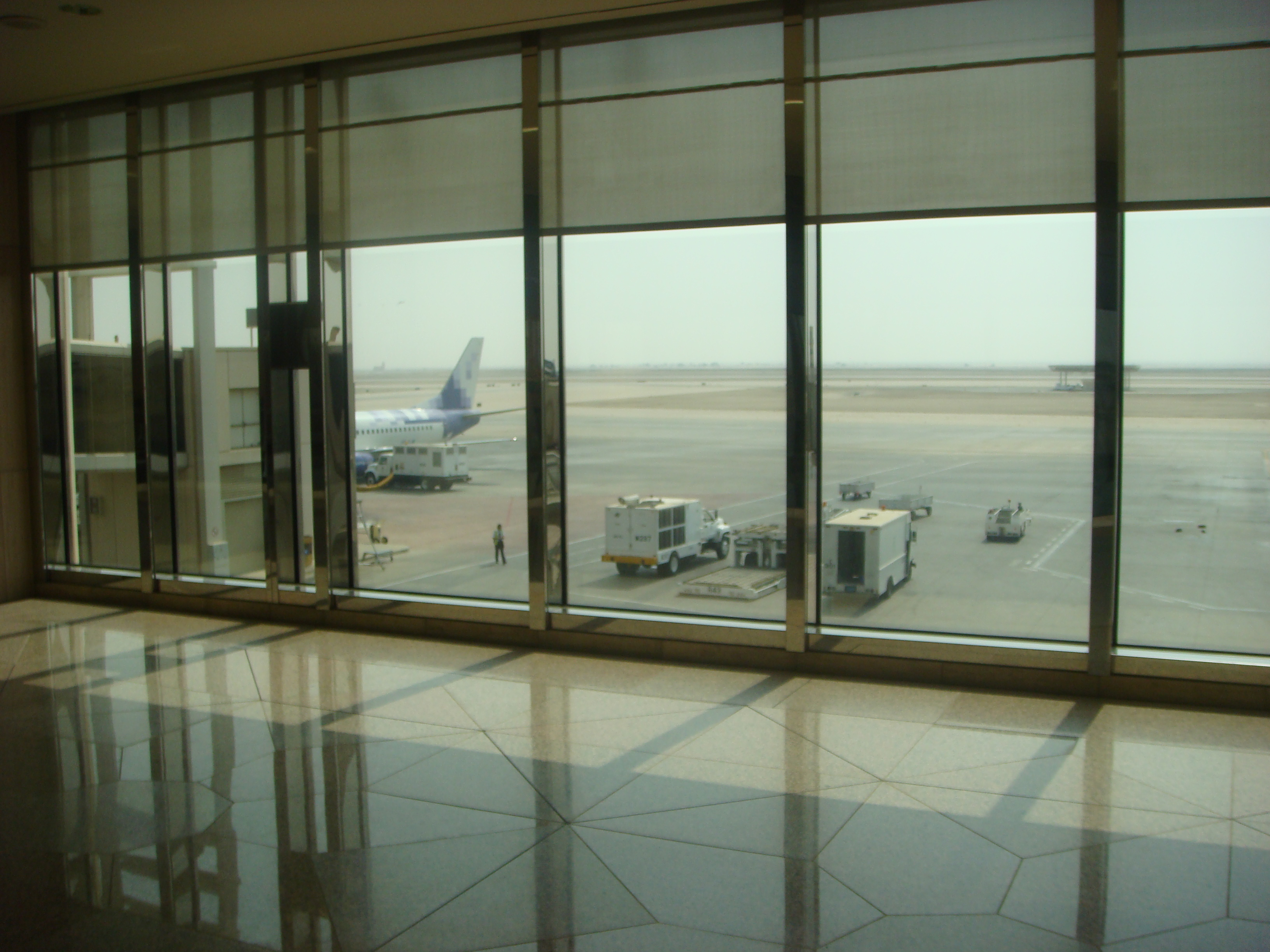 A Sama Airlines B737 parked at the King Fahd International Airport , Dammam bound for Prince Mohammad Bin Abdulaziz Airport, Medina. View from the departure lounge of the terminal.